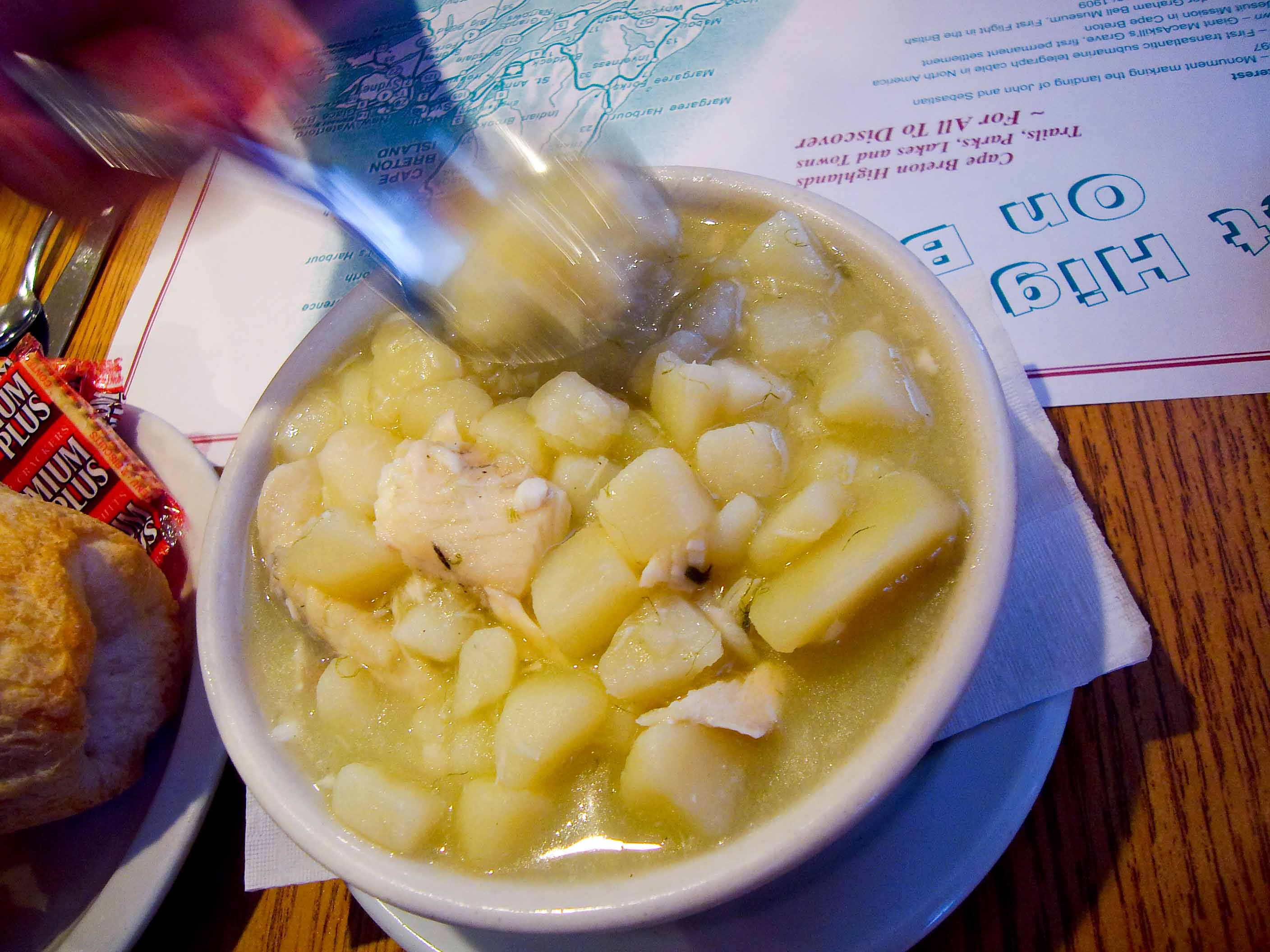 Potato and haddock chowder from the Acadian town Cheticamp, NS